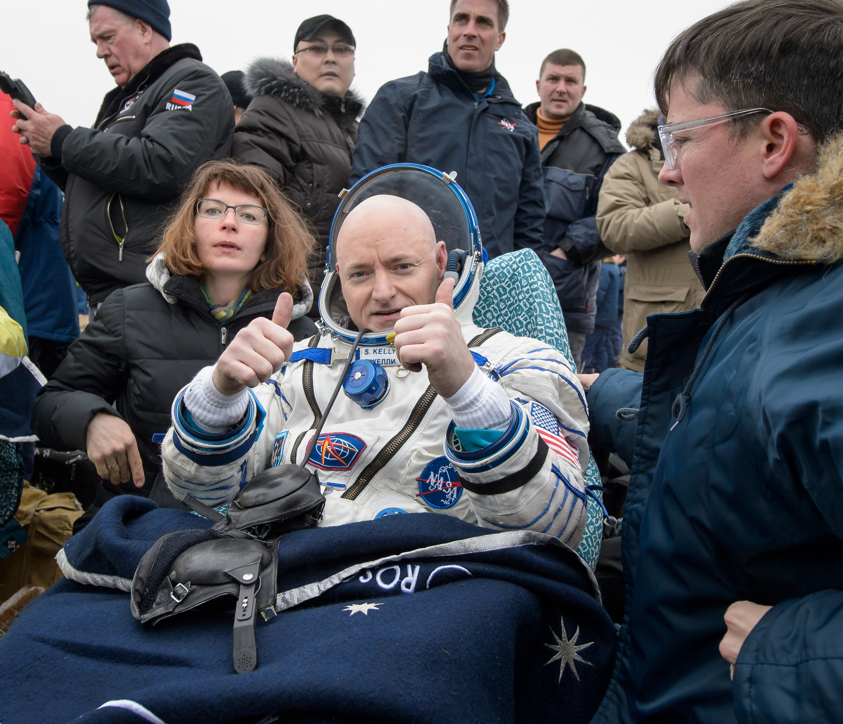 Expedition 46 Commander Scott Kelly of NASA rests in a chair outside of the Soyuz TMA-18M spacecraft just minutes after he and Russian cosmonauts Mikhail Kornienko and Sergey Volkov of Roscosmos landed in a remote area near the town of Zhezkazgan, Kazakhstan on Wednesday, March 2, 2016 (Kazakh time). Kelly and Kornienko completed an International Space Station record year-long mission to collect valuable data on the effect of long duration weightlessness on the human body that will be used to formulate a human mission to Mars. Volkov returned after spending six months on the station.